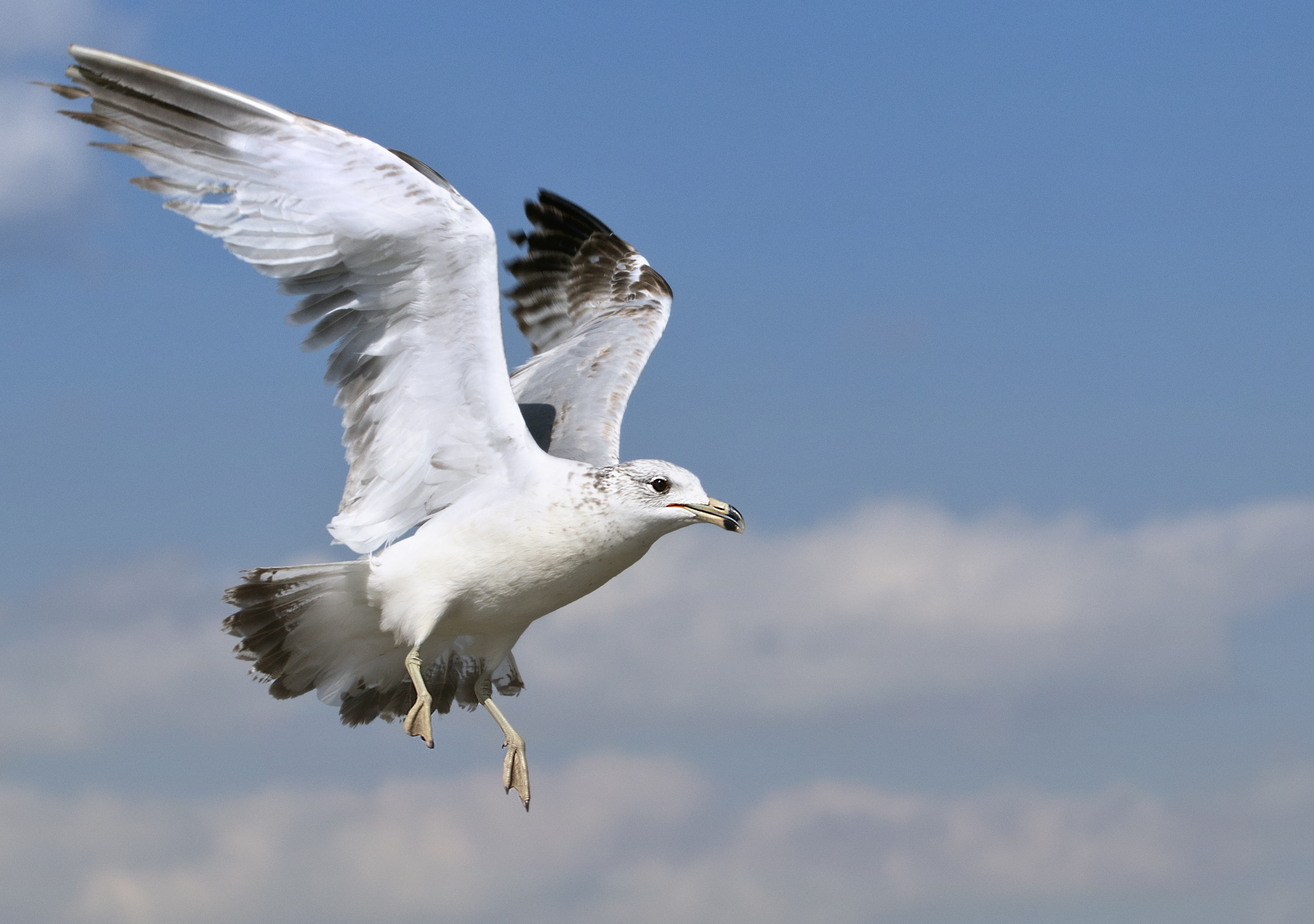 This is a young (second year) Ring-billed Gull Larus delawarensis flying